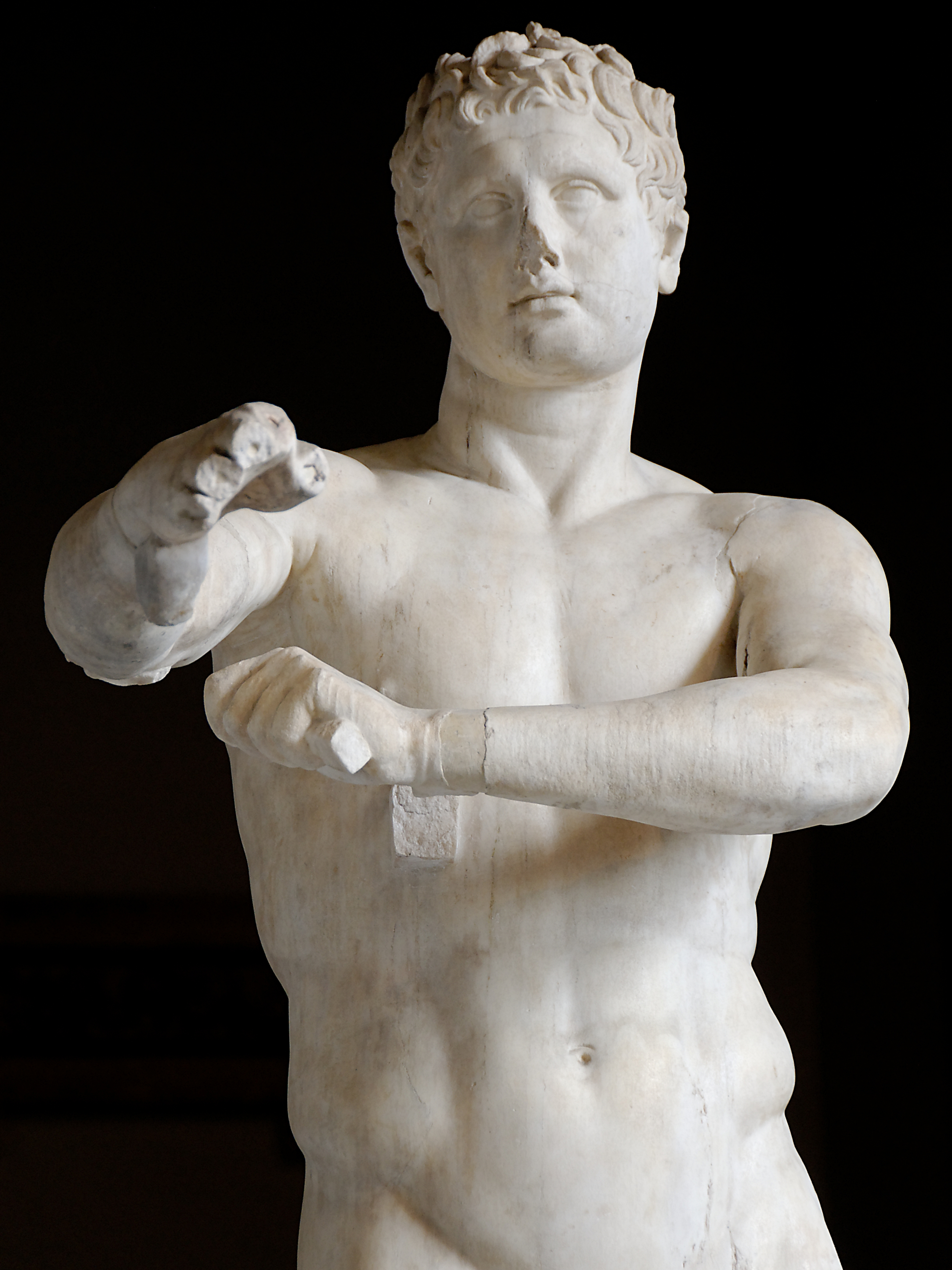 So-called “Apoxyomenos” (“the Scraper”). Marble, Roman copy of the 1st century AD after a Greek bronze original ca. 320 BC. From the Trastevere in Roma.